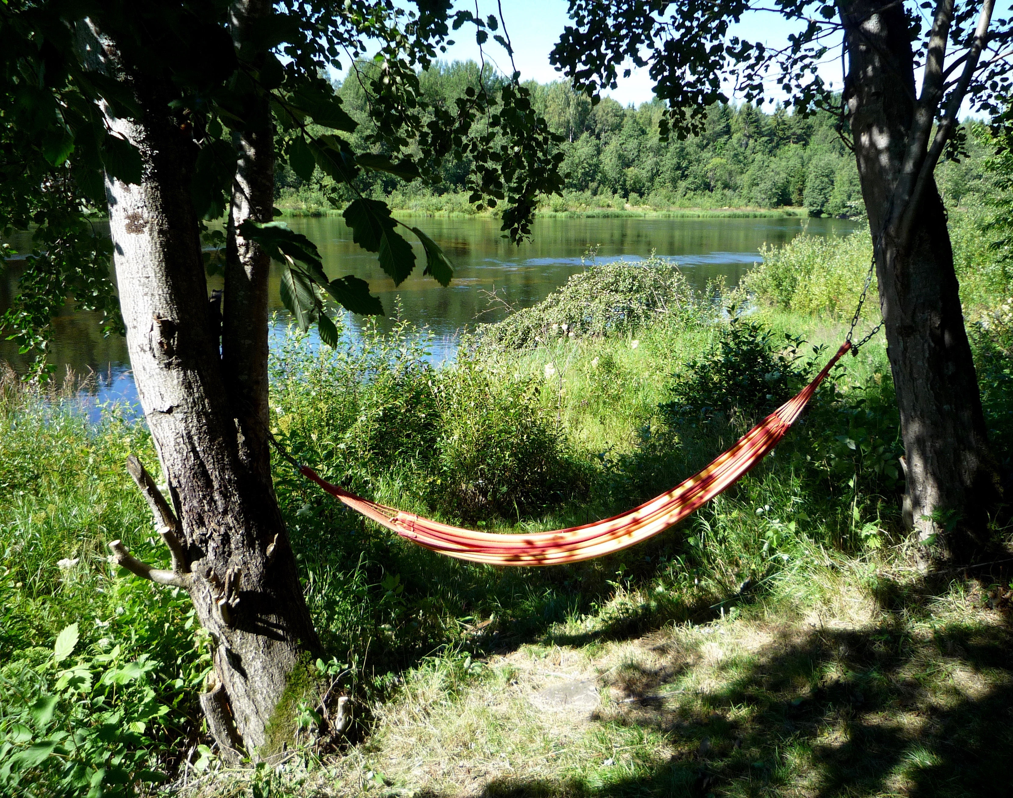 Hammock by the Ume River in Arboretum Norr.